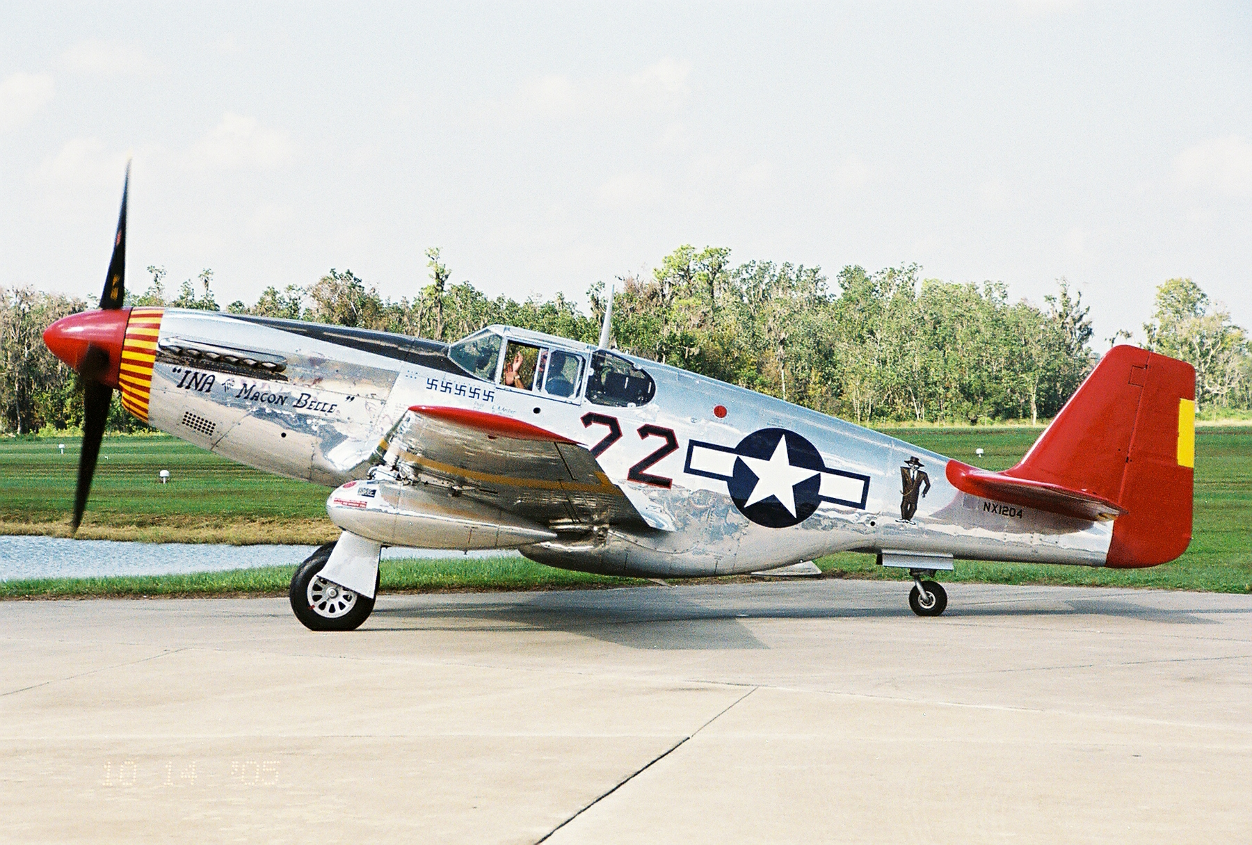 P-51C "Ina The Macon Belle" taxiing at Fantasy of Flight in Polk City, FL.